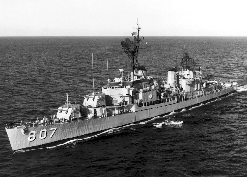 The U.S. Navy destroyer USS Benner (DD-807) underway off Hawaii (USA), in 1968.